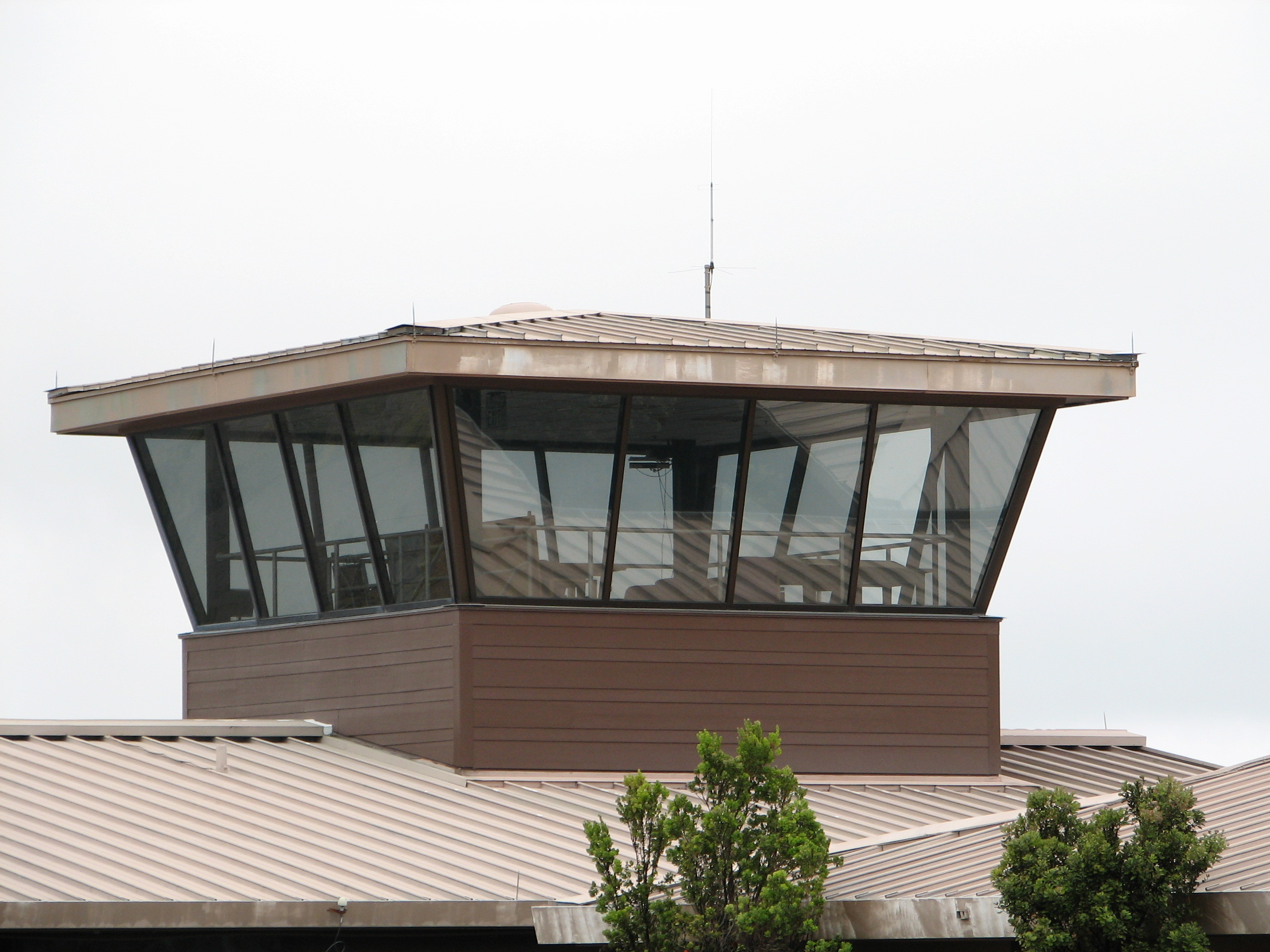 Observation tower of Hawaiian Volcano Observatory, Kilauea, Hawaii, United States